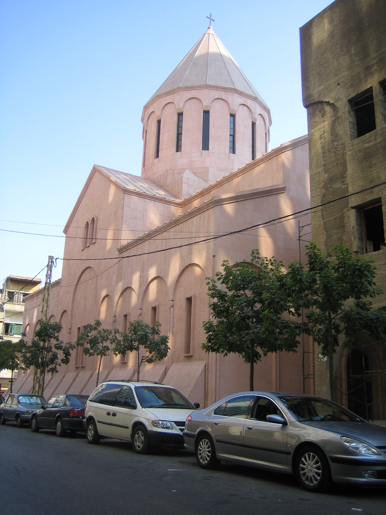 I took this picture myself in September, 2005. I release this picture to the public domain. This is a newly constructed church one street north of Armenia street and parallel to it, near Harboyan Center.